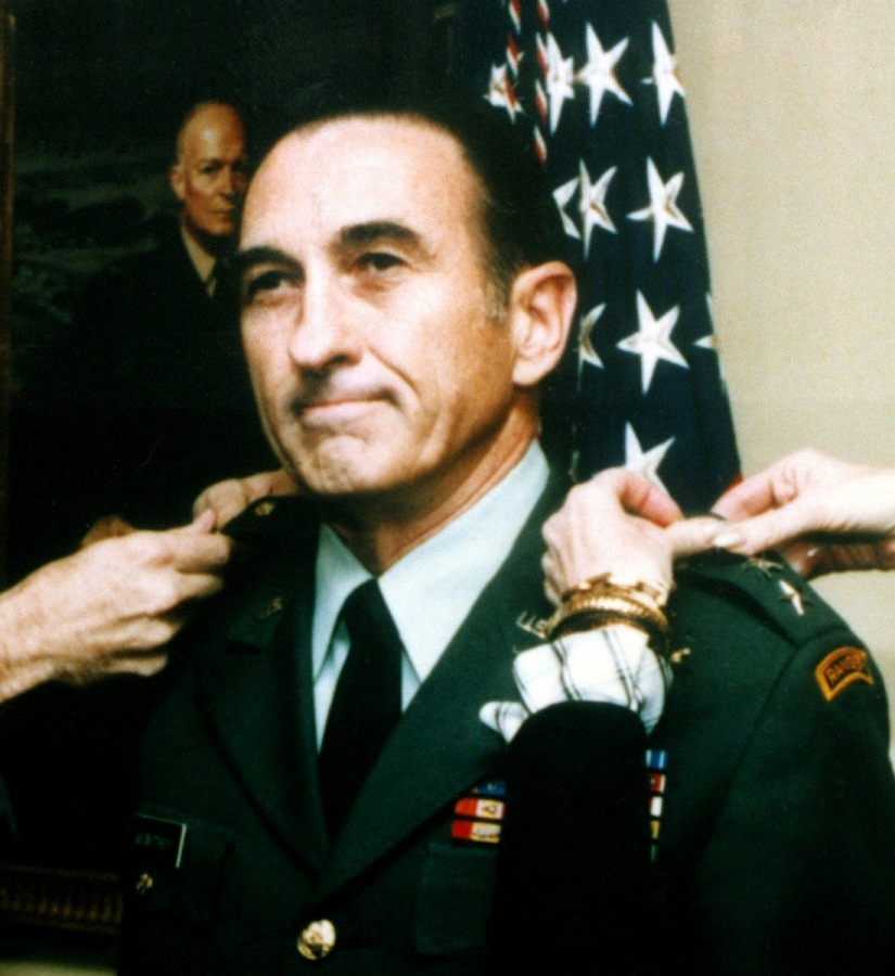 Maj. Gen. Louis is promoted to Lieutenant General. Army Chief of Staff Gen. Edward C. Meyer and Menetery's wife Susan (both cropped out of the picture) are pinning on Menetrey's third star. ID: DA-SC-83-08758